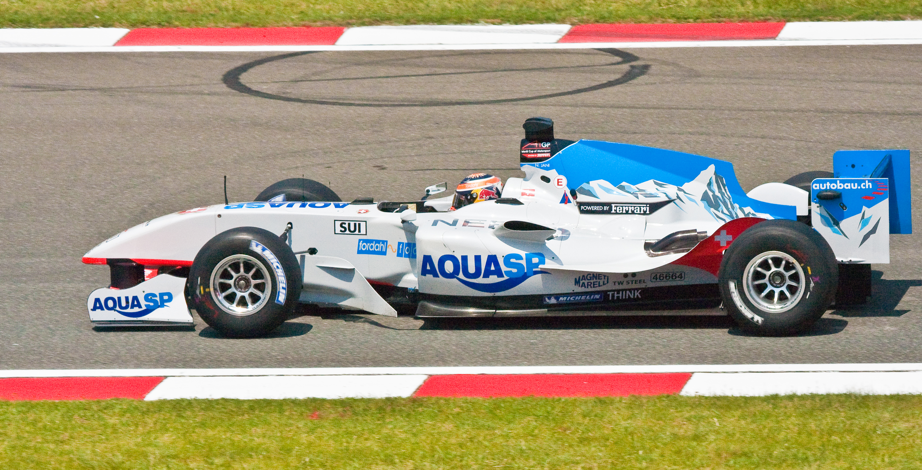 Team Switzerland @ A1 Grand Prix Kyalami South Africa 2009